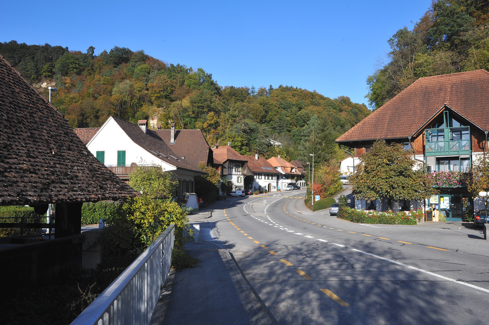 Gümmenen, a village in the municipality Mühleberg; on the left corner of the historical covered wooden bridge; Berne, Switzerland